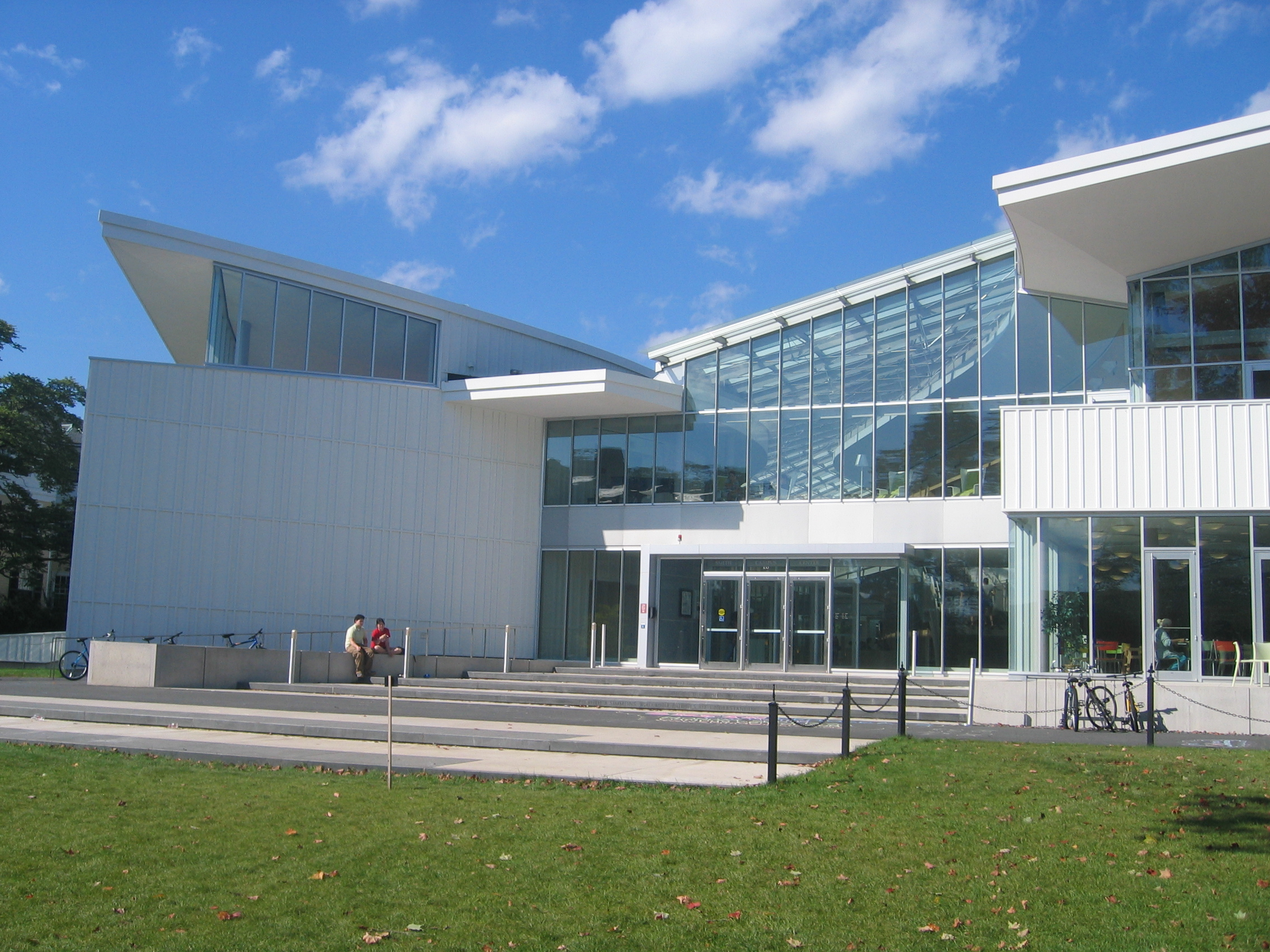 Description: Photograph of Smith College campus center Photograph taken by Jared C. Benedict on 12 September 2004. Copyright: © Jared C. Benedict. Licensed under the [Creative Commons] license by photographer Jared C. Benedict (myself).